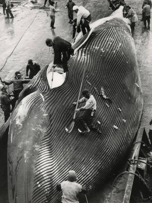 Spaarnestad Photo, SFA022807198 Het lossnijden van de huid met de eerste speklaag eronder, aan dek van een Japanse walvisvaarder in de Noordelijke IJszee. 1937. Collectie SPAARNESTAD PHOTO/Het Leven Cutting loose the skin of a whale on deck of a Japanese whaler in the Arctic Ocean. 1937. Voor meer informatie en voor meer foto’s uit de collectie van Spaarnestad Photo, bezoek onze Beeldbank: U kunt ons helpen onze kennis van de fotocollecties te verrijken door tags en commentaren toe te voegen. Herkent u mensen of locaties of heeft u een bijzonder verhaal te vertellen bij één van de foto’s, laat dan een reactie achter (als u ingelogd bent bij Flickr) of stuur een mailtje naar: You can help us gain more knowledge on the content of our collection by simply adding a comment with information. If you do not wish to log in, you can write an e-mail to